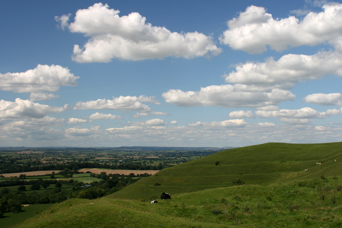 Hambledon Hill, Dorset, England, UK. View across the Blackmore Vale towards Stourton Tower.